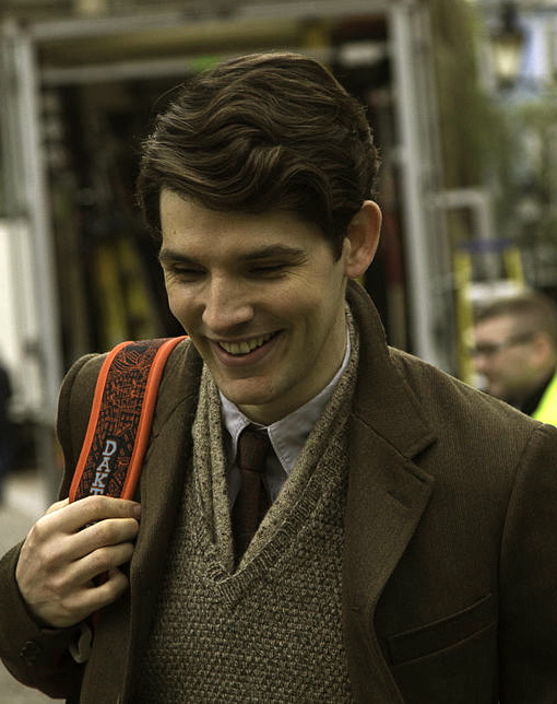 Colin Morgan on the filming set of Testament of Youth, Oxford, England, 9 April 2014